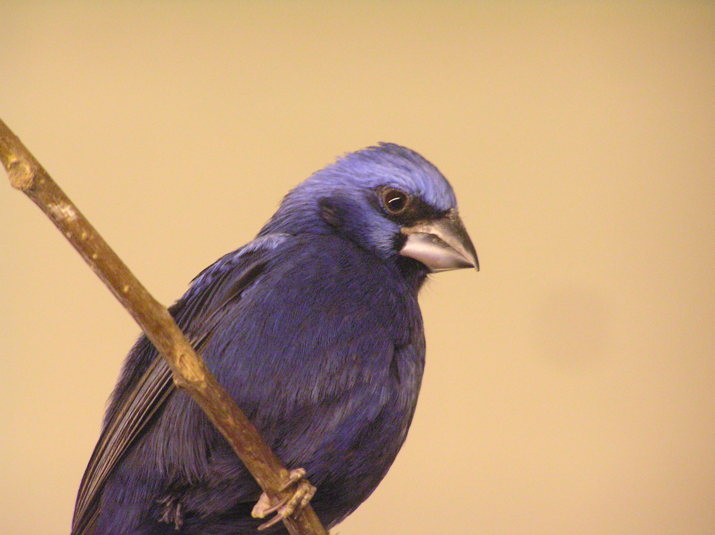 Ultramarine Grosbeak (Cyanocompsa brissonii) from a zoo in Antwerp